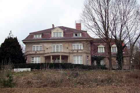 Villa Herpich was the villa of Josef Stalin at the conference of Potsdam, 1946. Villa Herpich was built in 1910/11 by Alfred Grenander.